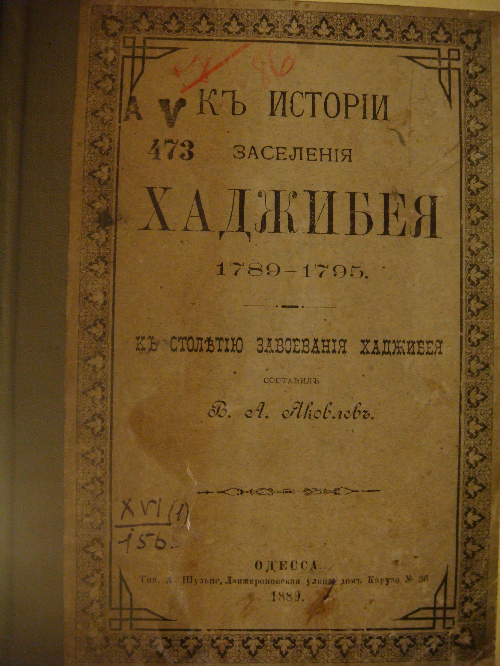 Title of a book about Cadjabey/Odessa history, published in 1889 (100 years anniversary since Cadjabey was captured by Russians)